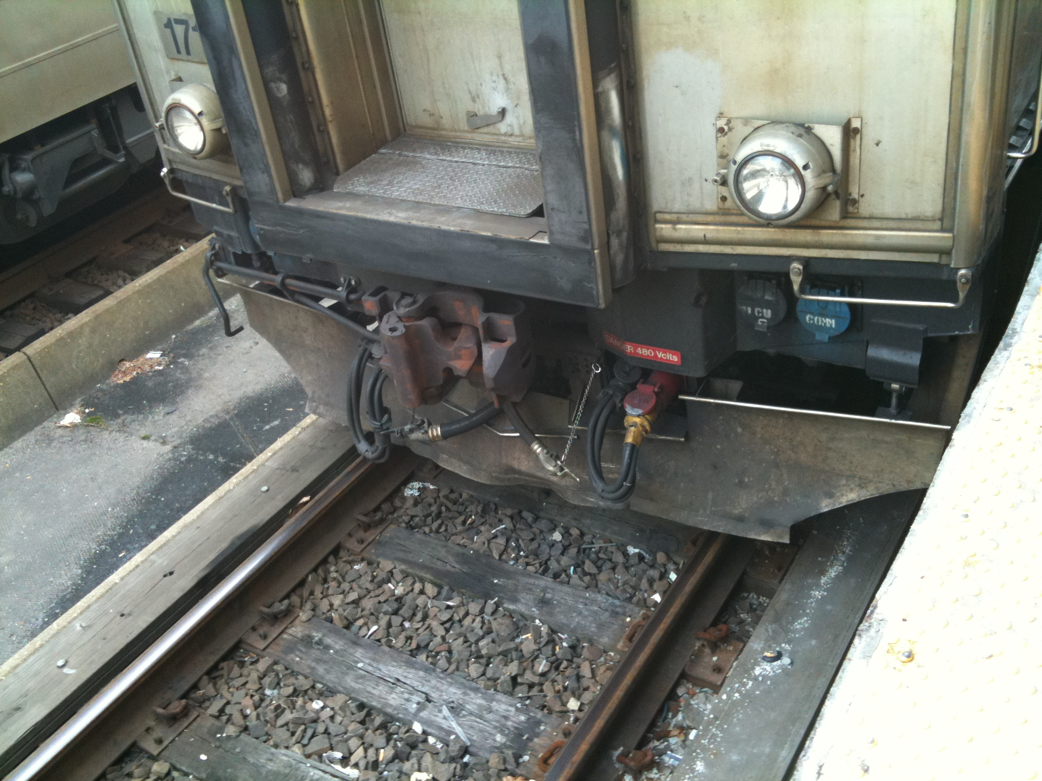 Head end of an MBTA commuter rail car showing coupler, brake lines and electrical connections. Train was parked on Track 1 at South Station.